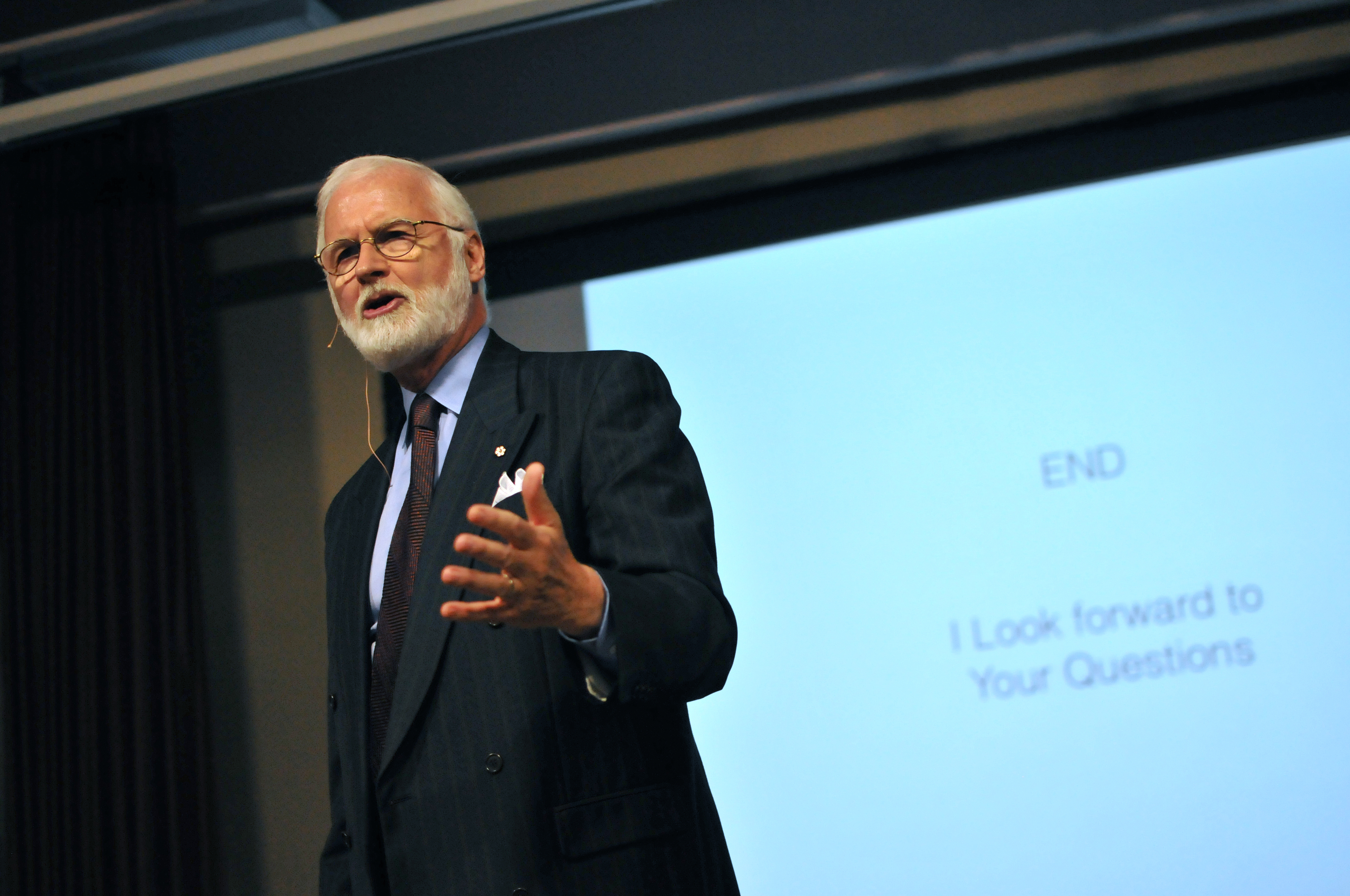 Bob Fowler